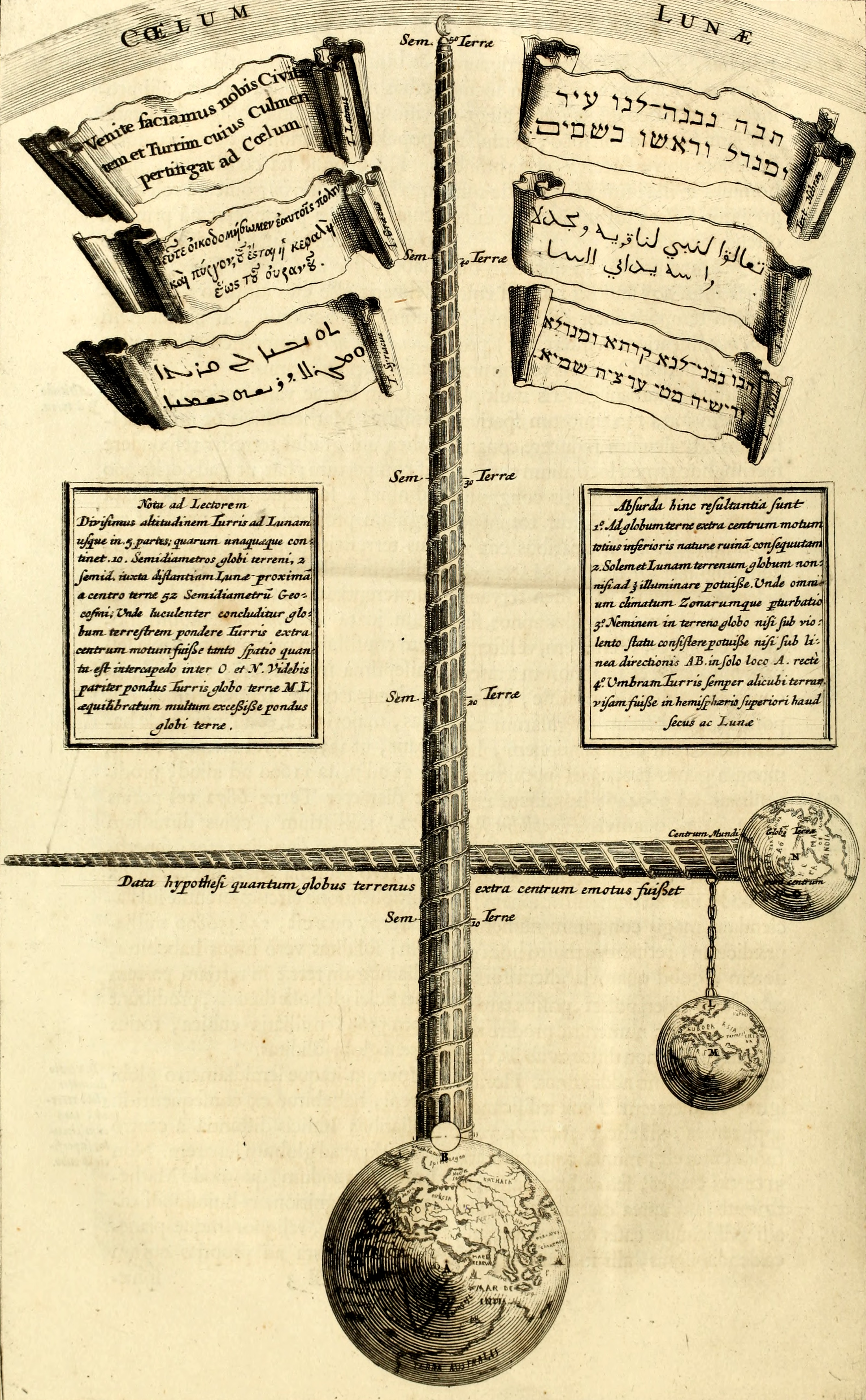 Why the Tower Could Not Reach the Moon, displayed in the book Turris Babel, Sive Archontologia Qua Primo Priscorum post diluvium hominum vita, mores rerumque gestarum magnitudo, Secundo Turris fabrica civitatumque exstructio, confusio linguarum, & inde gentium transmigrationis, cum principalium inde enatorum idiomatum historia, multiplici eruditione describuntur & explicantur. Amstelodami, Jansson-Waesberge 1679 by Athanasius Kircher's Principis Christiani archetypon politicum